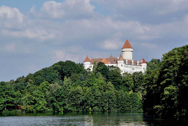 Konopiste Castle in the Czech Republic, view from the bigger lake